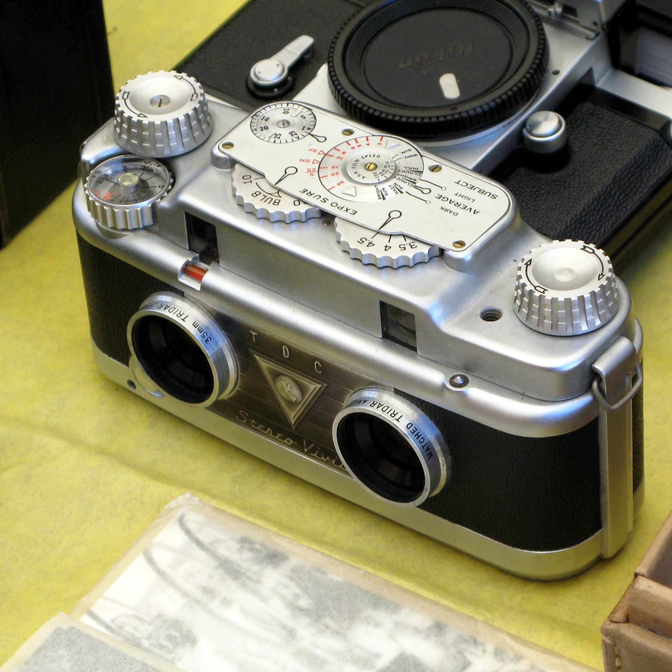 TDC Stereo Vivio camera